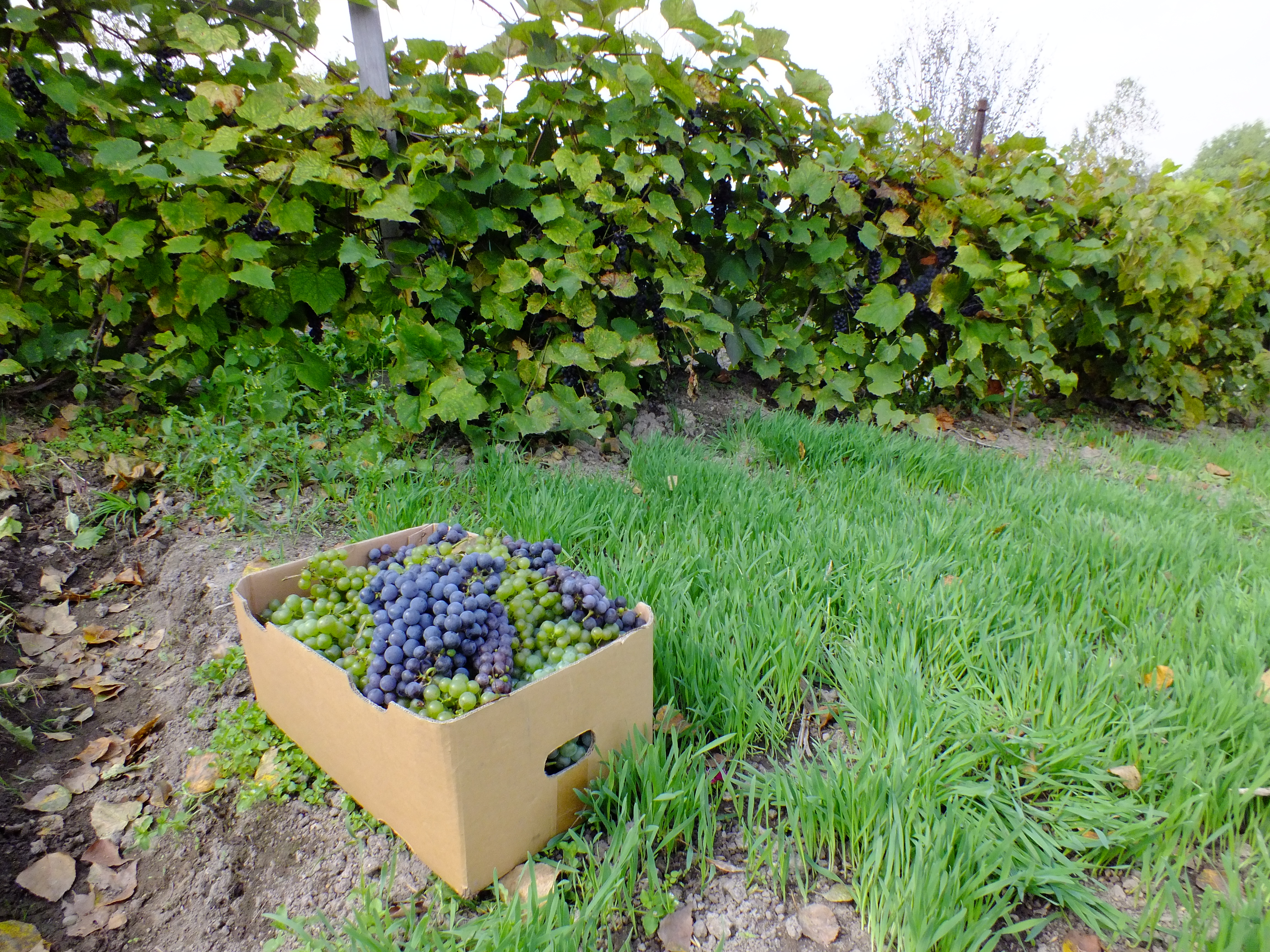 Vitis amurensis